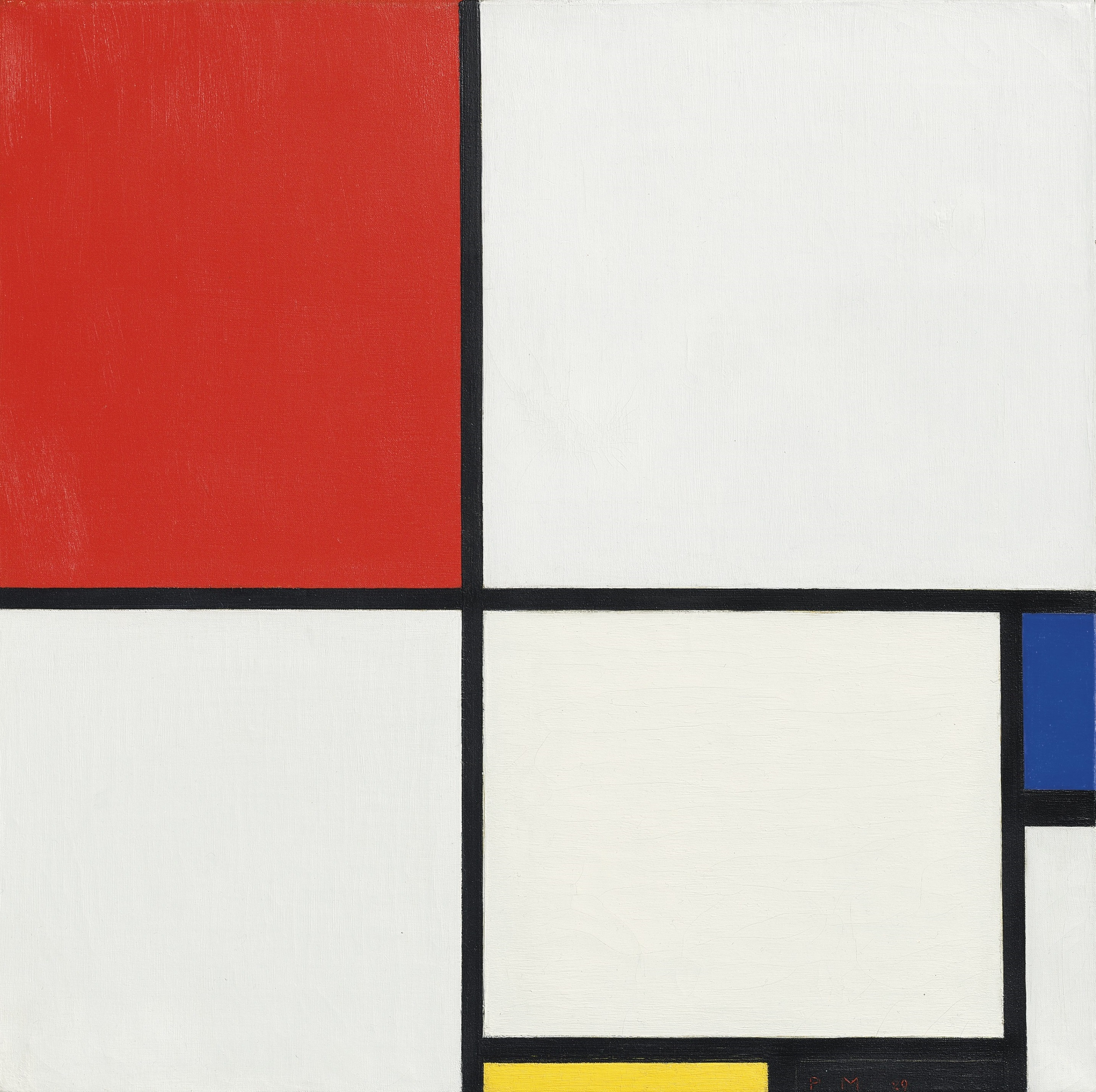 Composition No. III, with Red, Blue, Yellow, and Black